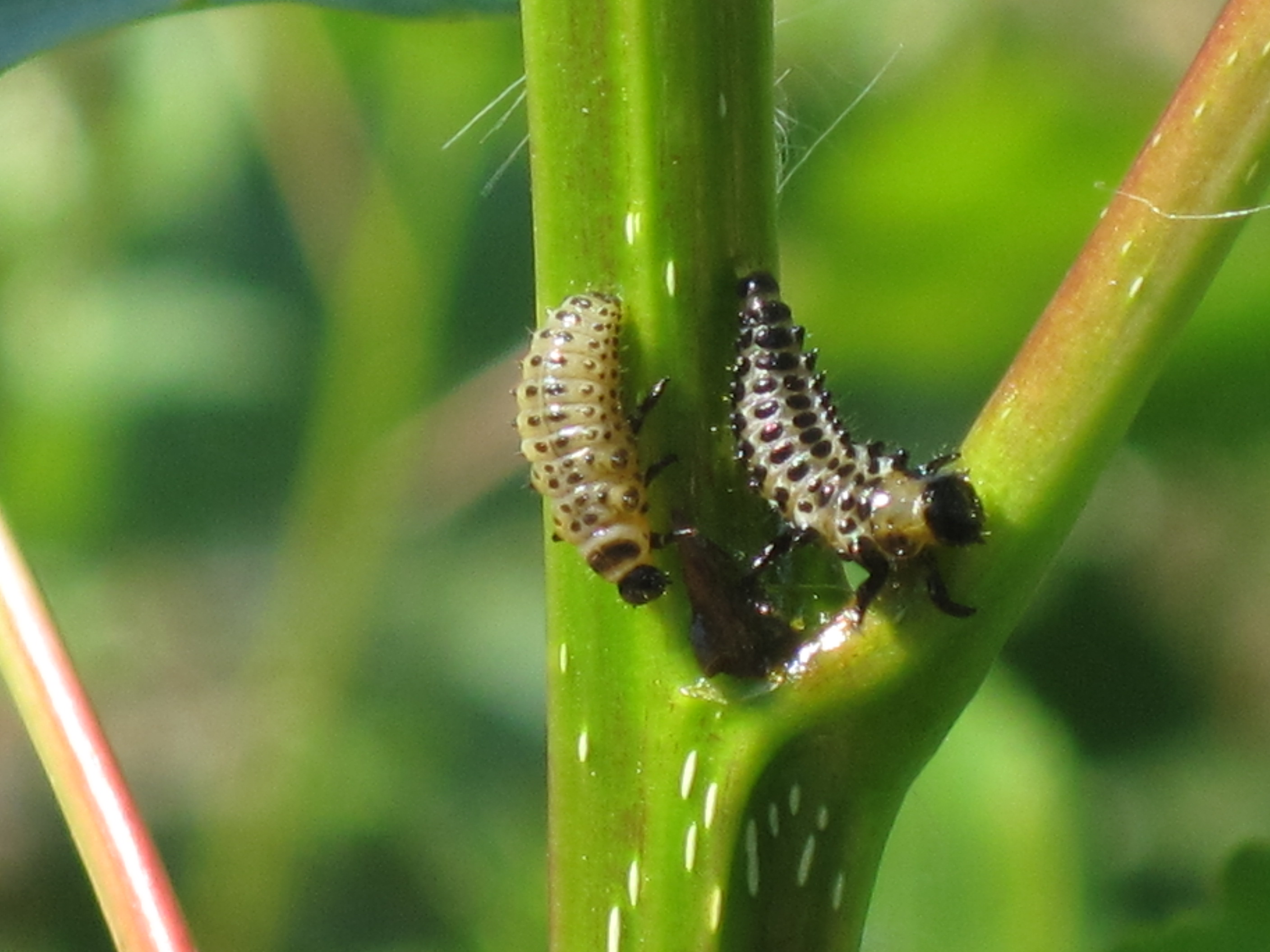 Chrysomela populi (Poplar Leaf Beetle) larvae, Arnhem, the Netherlands